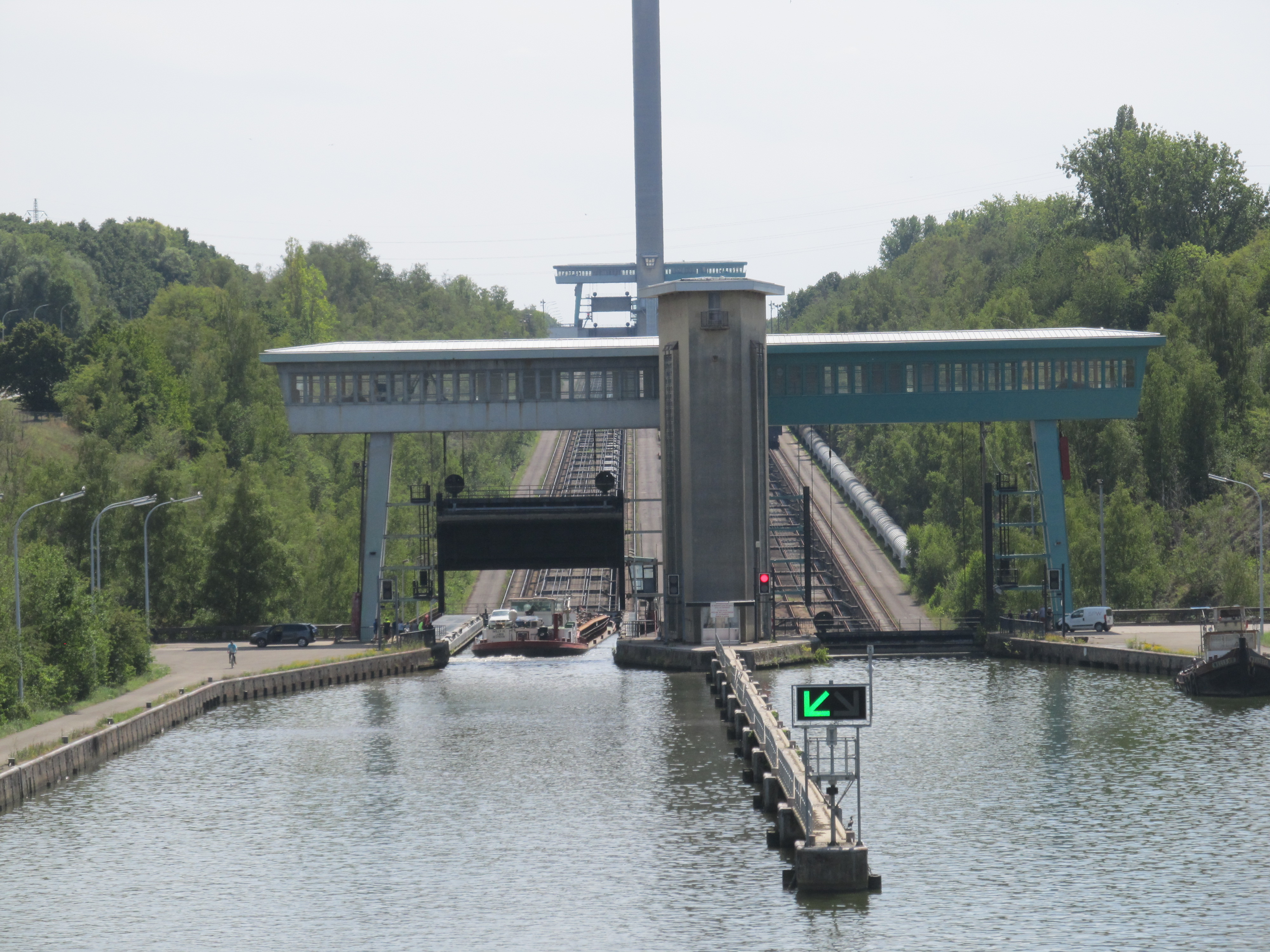 The Ronquières inclined plane in Belgium on the Brussels-Charleroi Canal.